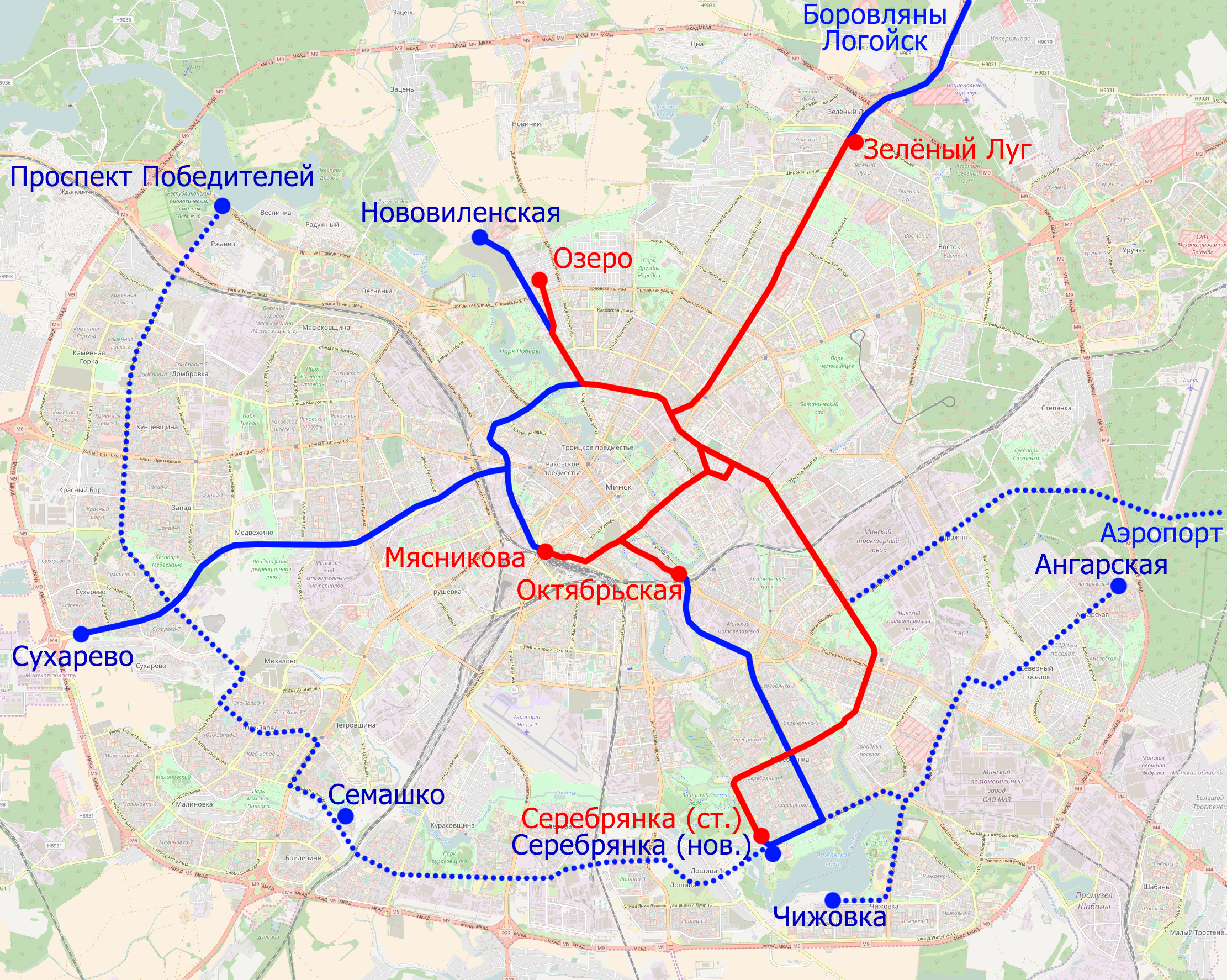 Development plan of Minsk tram network (version of 2018). Current network is in red, future developments are in blue (up to 2020) and blue dots (up to 2030). Source of information: Scheme of development of the rail transport, General plan of Minsk, 2018 edition: ( very similar in 2015